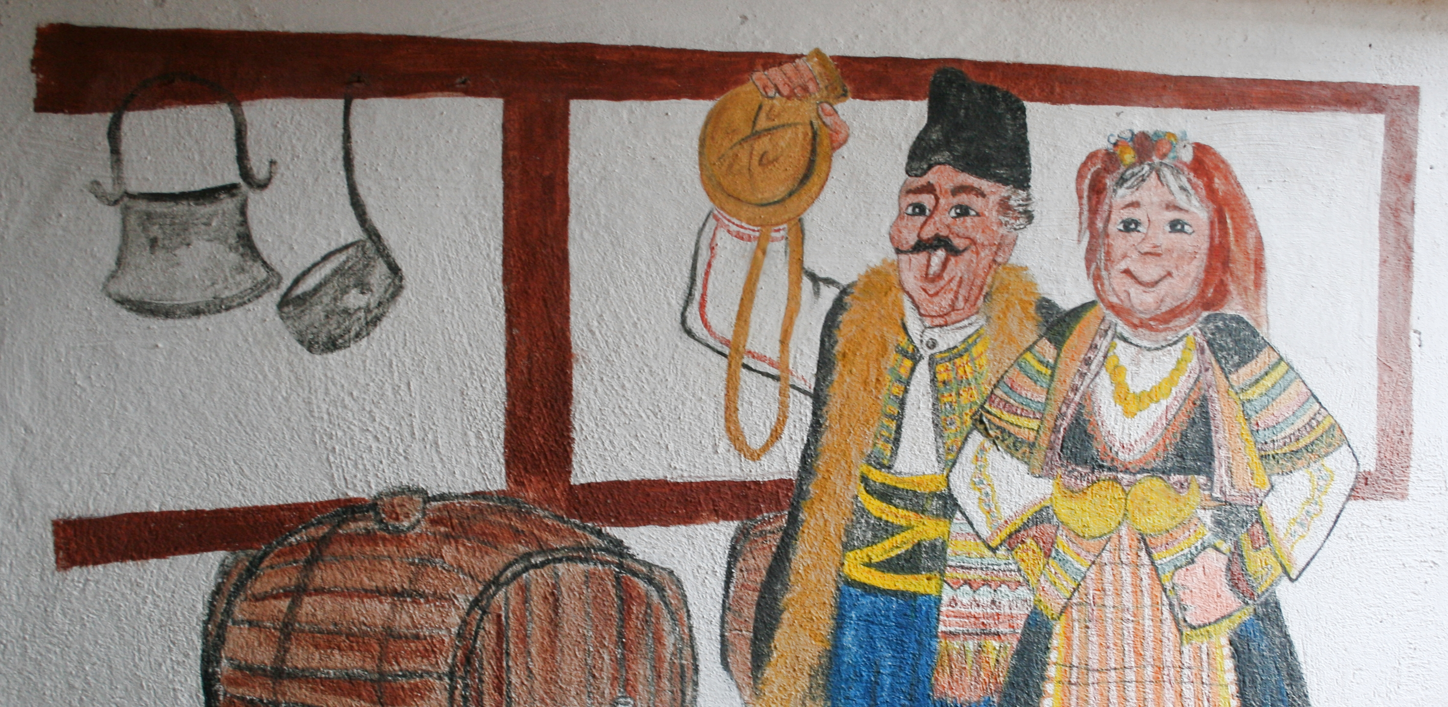 naive wall painting in countryside eastern Bulgaria.